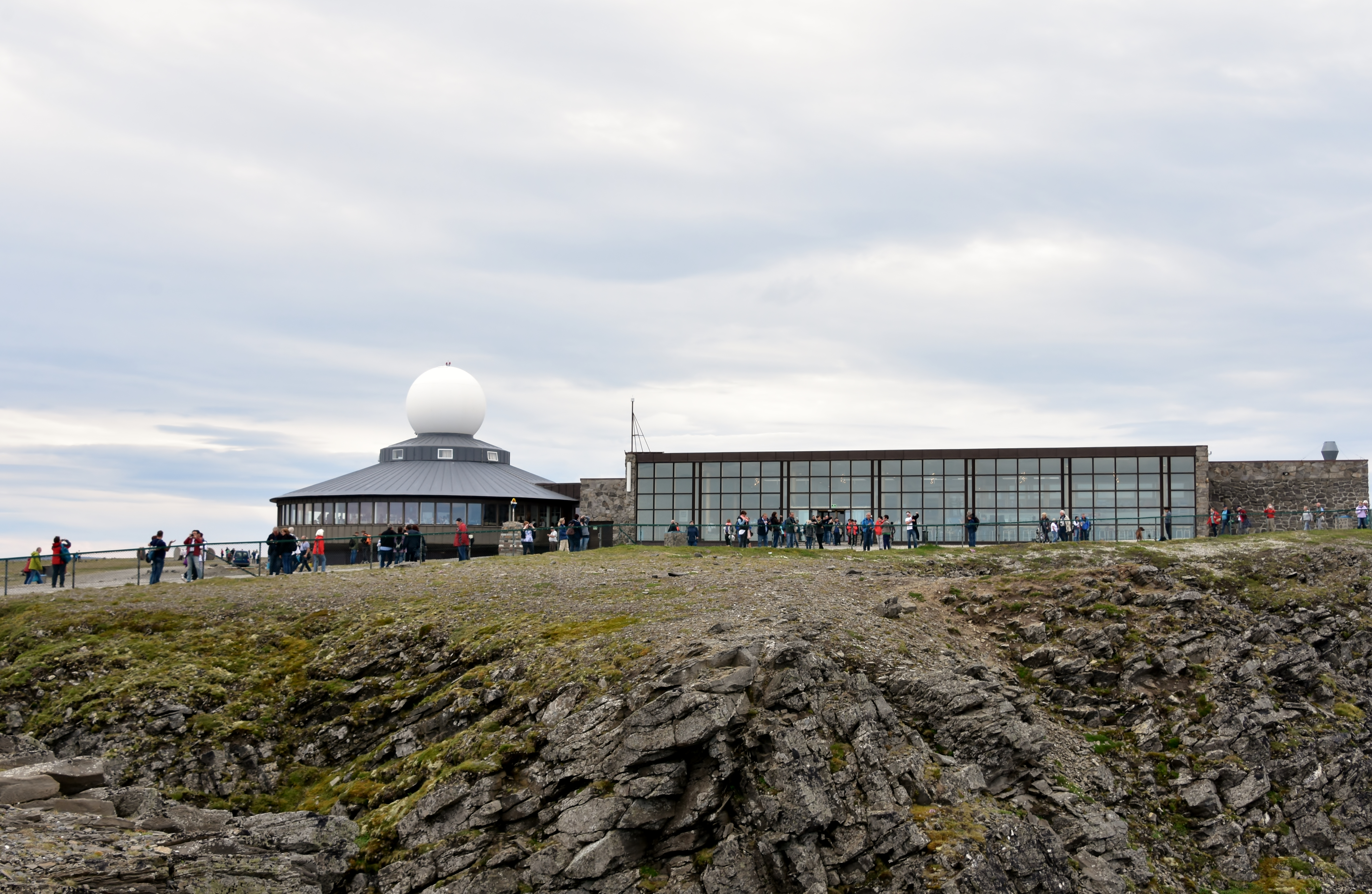 North Cape, Norway (10)